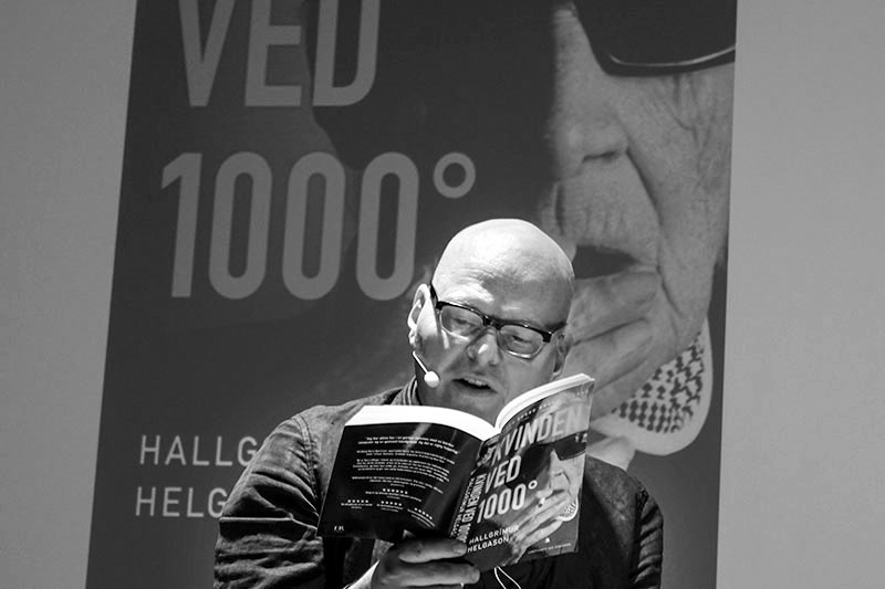 Hallgrímur Helgason reading from his book "The Woman at 1000 Degrees" in Aarhus (Denmark) 2016